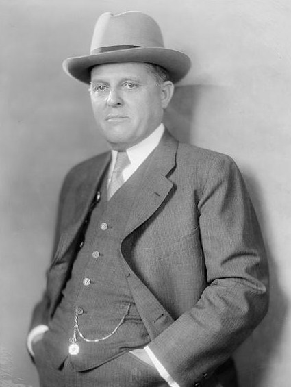 Butler B. Hare U.S. Congressman from South Carolina This work is in the public domain in the United States because it is a work prepared by an officer or employee of the United States Government as part of that person’s official duties under the terms of Title 17, Chapter 1, Section 105 of the US Code. See Copyright. Note: This only applies to original works of the Federal Government and not to the work of any individual U.S. state, territory, commonwealth, county, municipality, or any other subdivision. This template also does not apply to postage stamp designs published by the United States Postal Service since 1978. (See § 313.6(C)(1) of Compendium of U.S. Copyright Office Practices). It also does not apply to certain US coins; see The US Mint Terms of Use. This file has been identified as being free of known restrictions under copyright law, including all related and neighboring rights. This image is available from the United States Library of Congress's Prints and Photographs division under the digital ID LC-DIG-hec-21345. This tag does not indicate the copyright status of the attached work. A normal copyright tag is still required. See Commons:Licensing for more information.